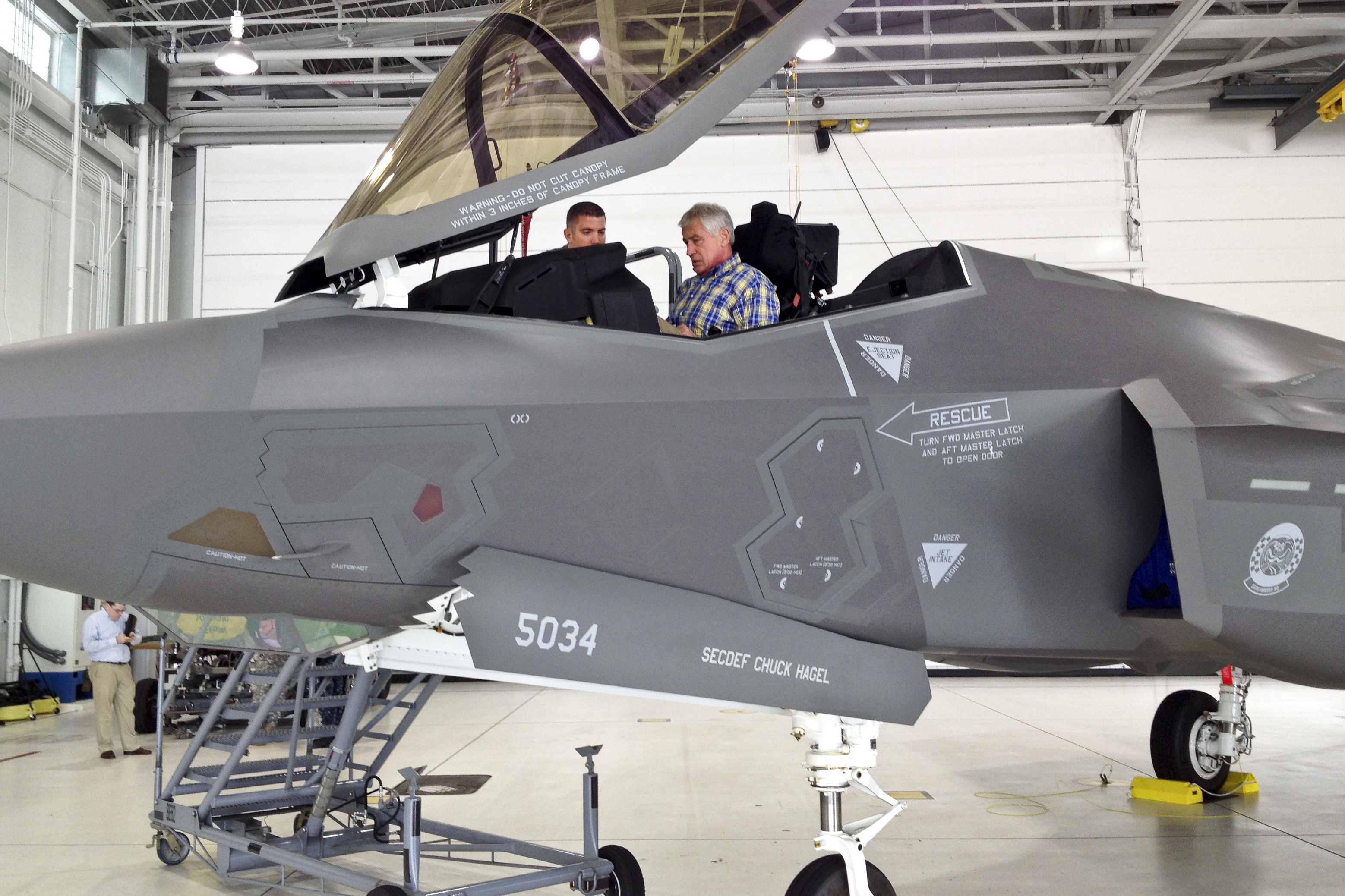 Defense Secretary Chuck Hagel sits in an F-35A Lightning II joint strike fighter aircraft of the 58th Fighter Squadron, 33d Fighter Group on Eglin Air Force Base, Fla., July 10, 2014, during a two-day trip to visit bases in the South. Eglin is home to the Air Force’s first full squadron of F-35A Lightning II aircraft.